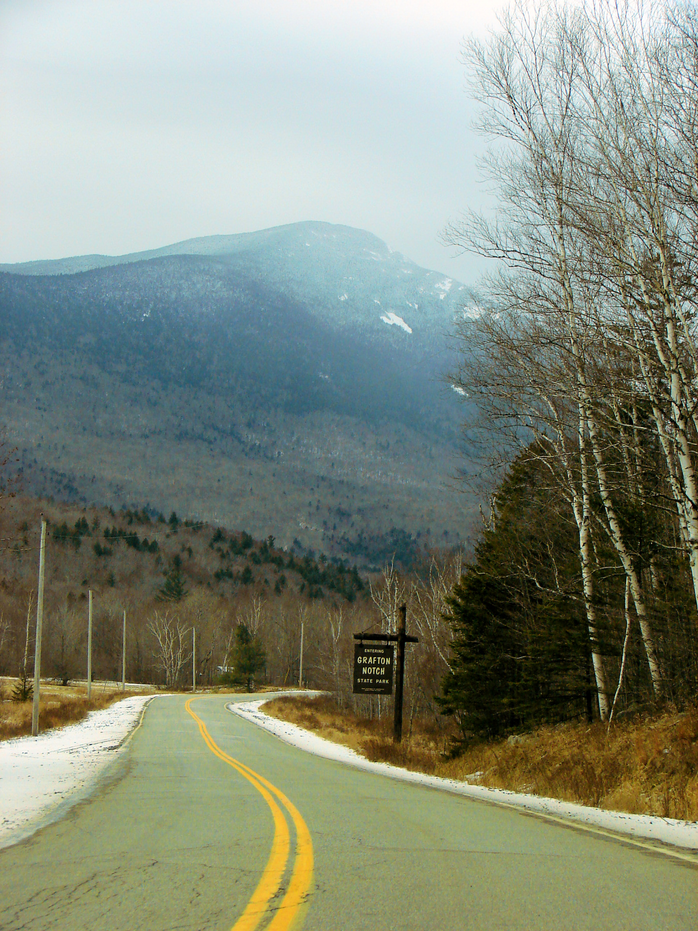 Grafton Notch State Park with Old Speck Mountain in background, Maine, United States